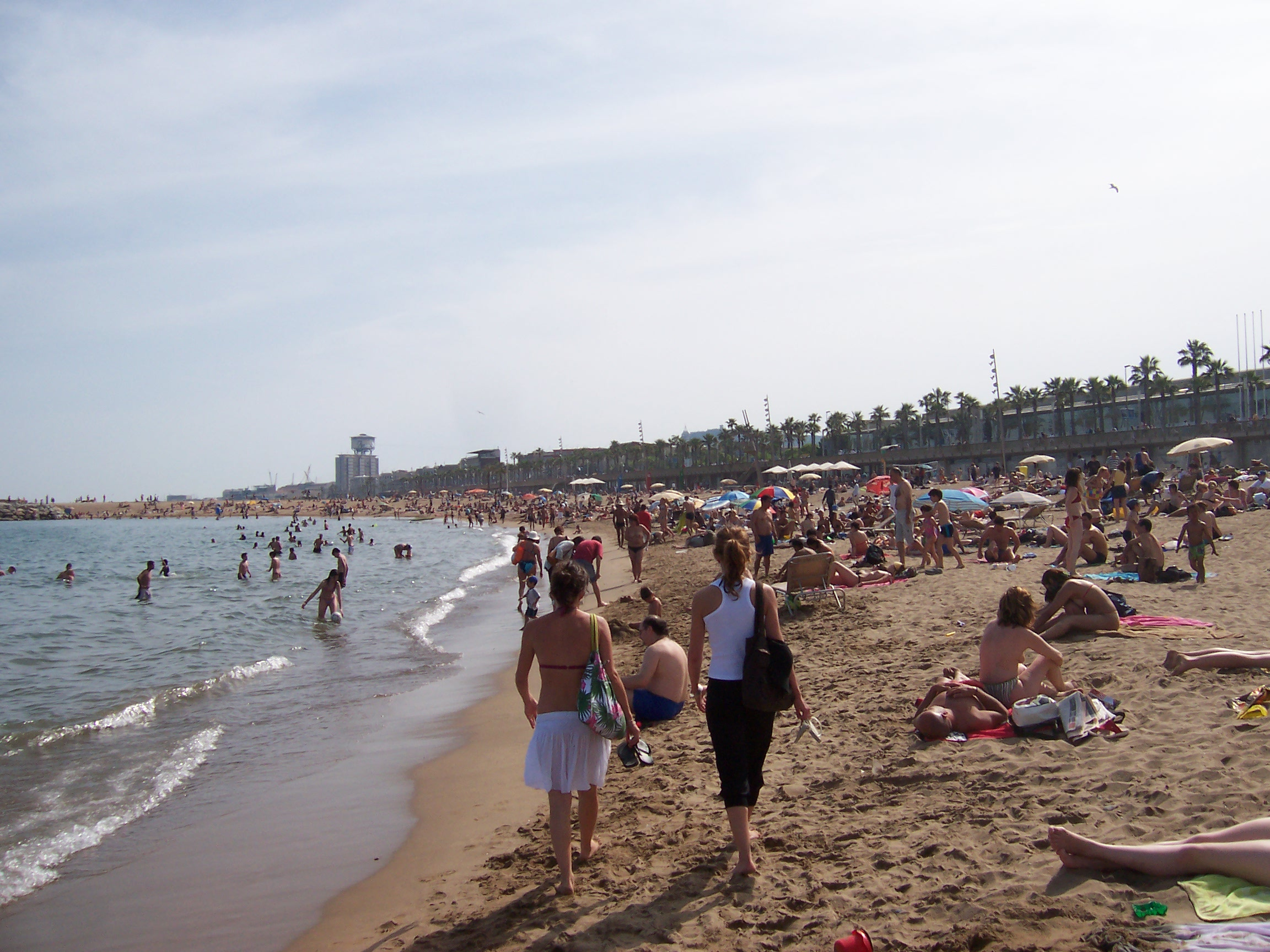 Barceloneta Beach, in Barcelona.